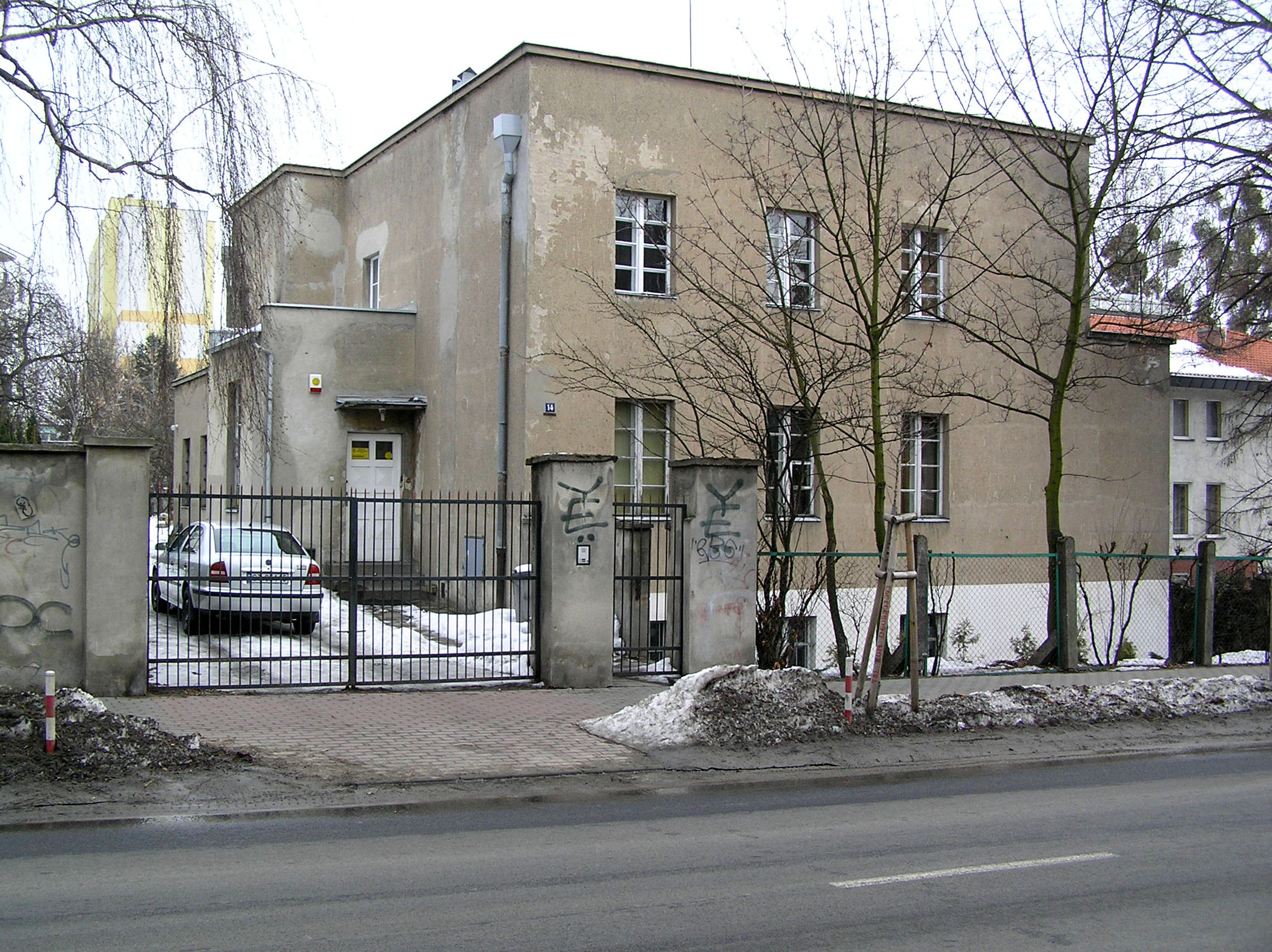 Toruń, house at 14 Legionów Str., own house of architect Kazimierz Ulatowski.